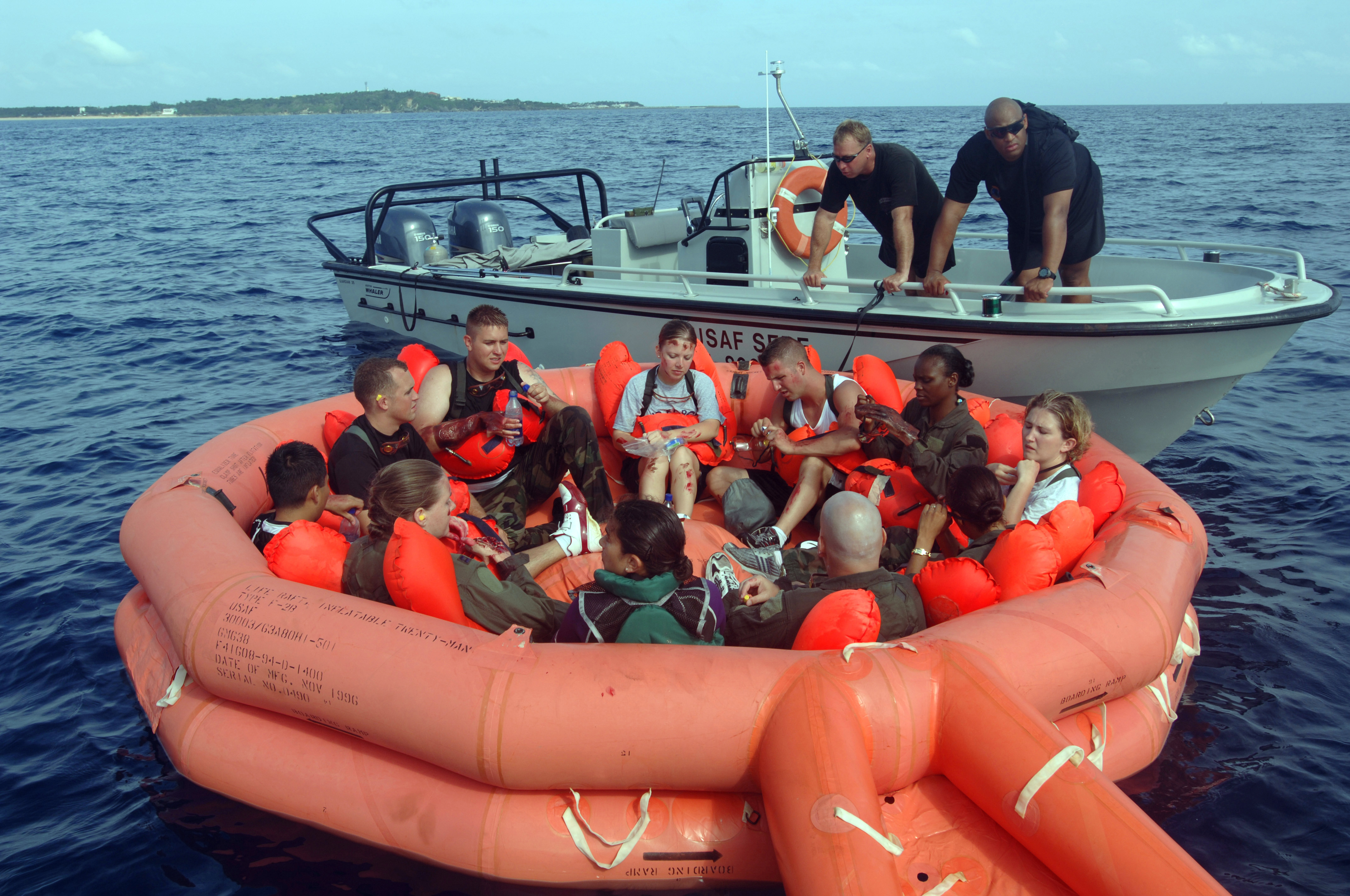 life raft in a NAVY training; Okinawa, Japan (Aug. 8, 2005) - U.S. Air Force personnel assigned to the 18th Aeromedical Evacuation Squadron, sit inside a life raft before a simulated rescue by a U.S. Navy HH-60H Seahawk helicopter during a mass water casualty-training scenario at White Beach Naval Station, Okinawa, Japan. The exercise was part of the third annual Joint Air and Sea Exercise (JASEX). JASEX focuses on integrated joint training proficiency in detecting, locating, tracking and engaging units at sea, in the air, and on land, in response to a range of mission areas. U.S. Air Force photo by Master Sgt. Val Gempis (RELEASED)